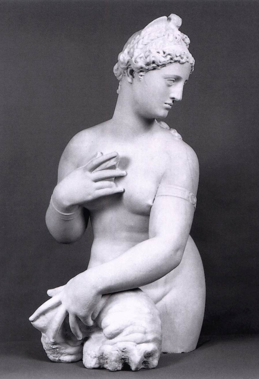 Fata Morgana (Morgan le Fay, sorceress of Arthurian legend), Private collection